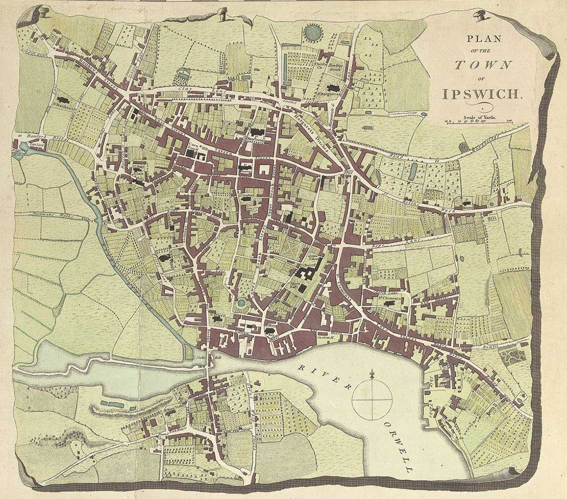 This is an early map of Ipswich dating back in the 1780's. The Ipswich town plan is an insert from Hodskinson's 1783 Map of Suffolk.